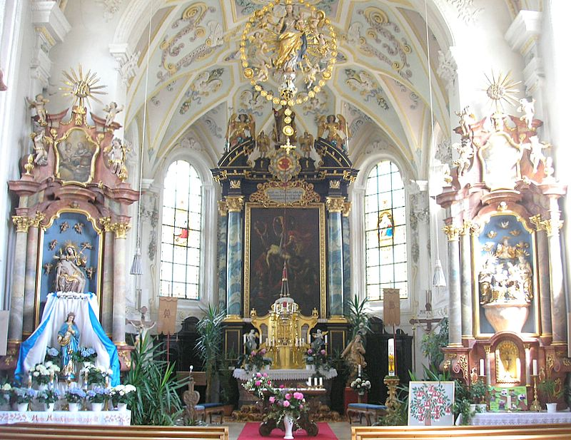 Parish church St. Wolfgang (Mickhausen, Bavaria, Germany). The choir: view into the vault.